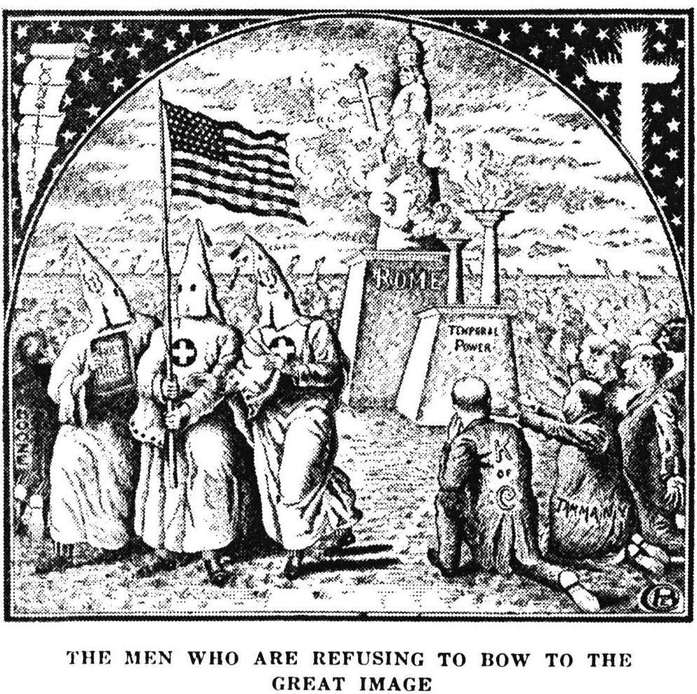 Anti-Catholic cartoon by KKK preacher Branford Clarke